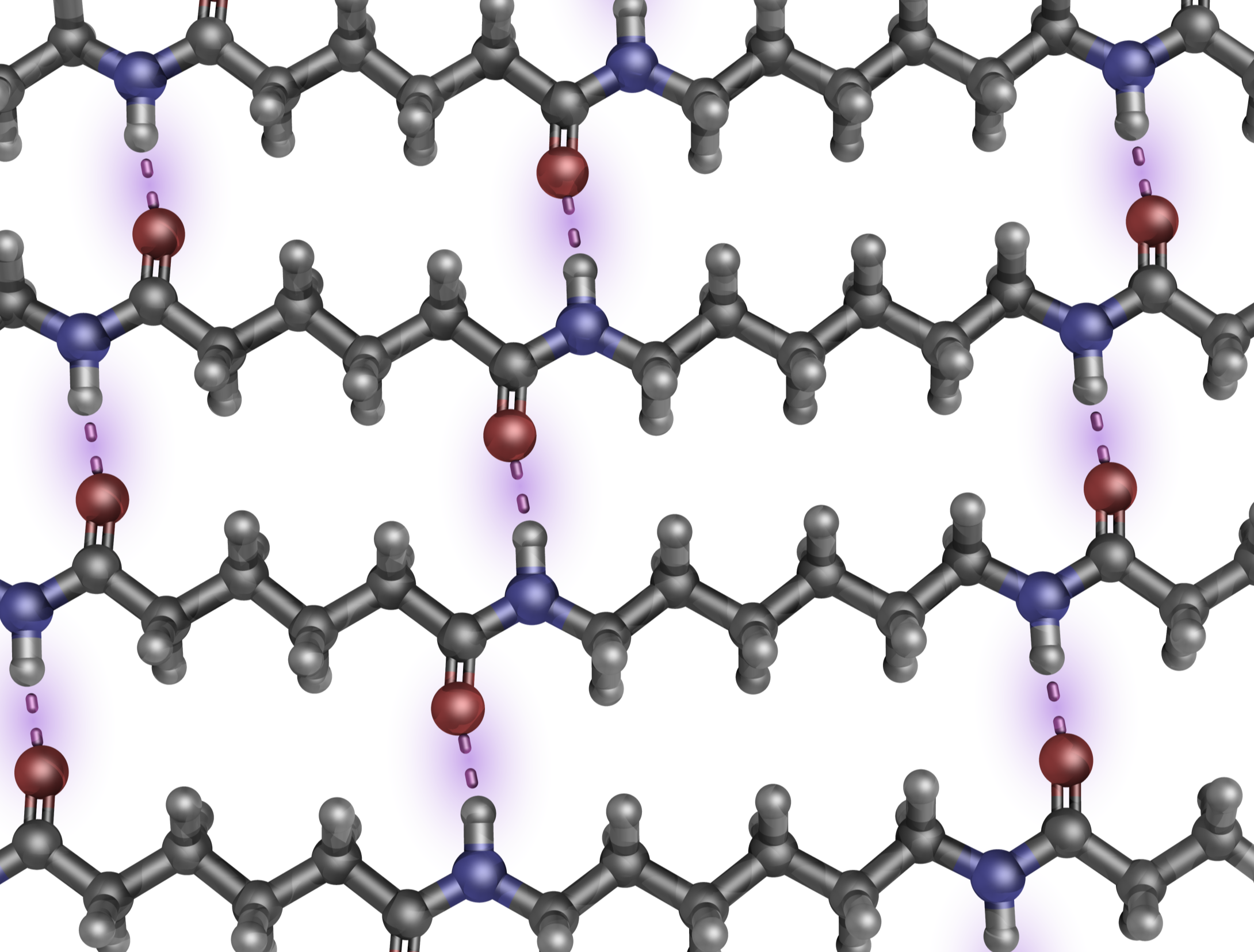 Hydrogen bonding in nylon 6-6. The nylon fibers are relatively resistant to damage because their long-chain molecules have stronger inter-molecular forces than the Van der Waals bonds between polyethylene chains. Indeed, each N—H group in a nylon chain can hydrogen-bond to the O of a C=O group in a neighboring chain, as shown above. Therefore, the chains cannot slide past one another easily ChemPRIME Staff (2010), Condensation Polymers, .